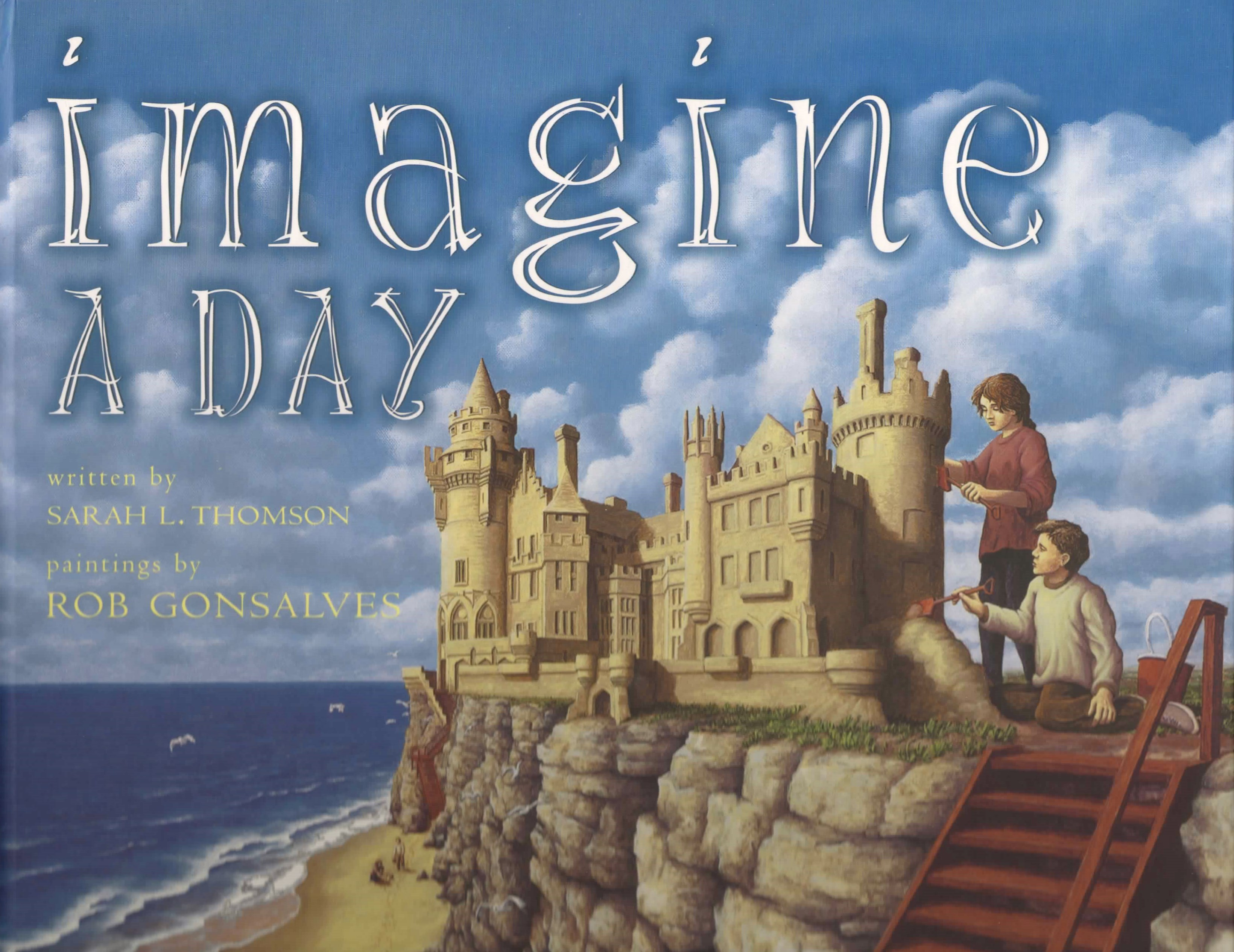 This is a photo I took of the cover of my book.